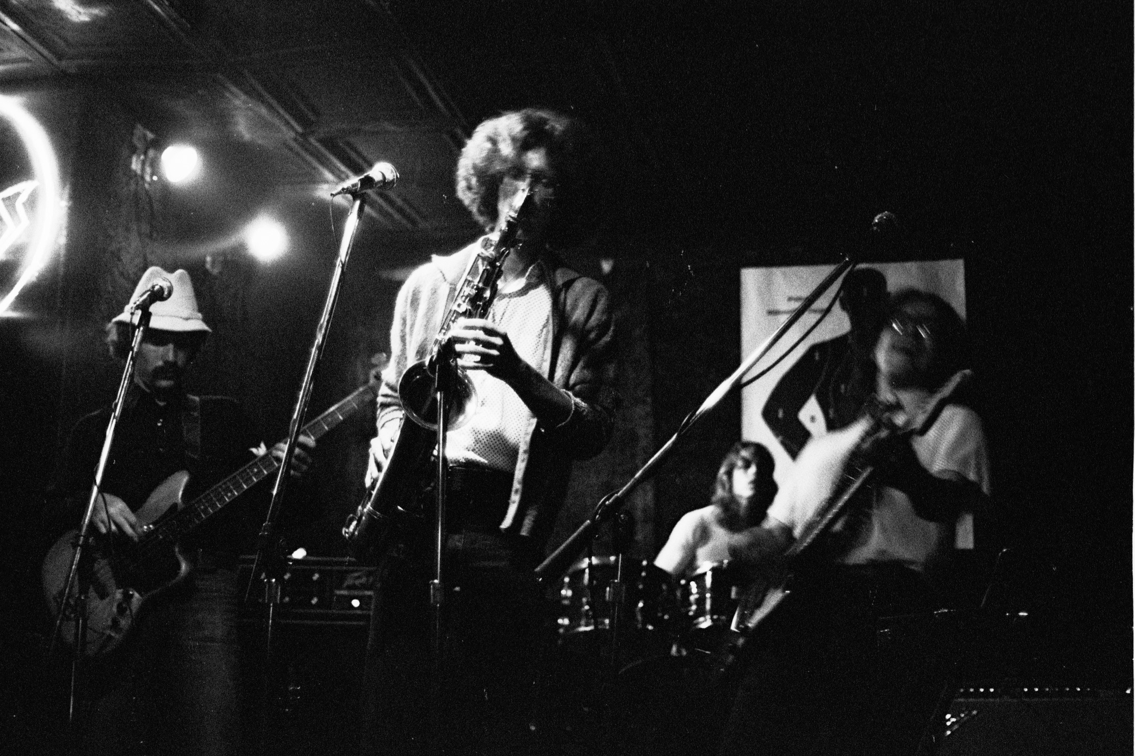 Brave Combo performs at Zero's nightclub in Fort Worth, Texas, in 1980. Left to right: Lyle Atkinson (bass), Tim Walsh (sax), Dave Cameron (drums), and Carl Finch.